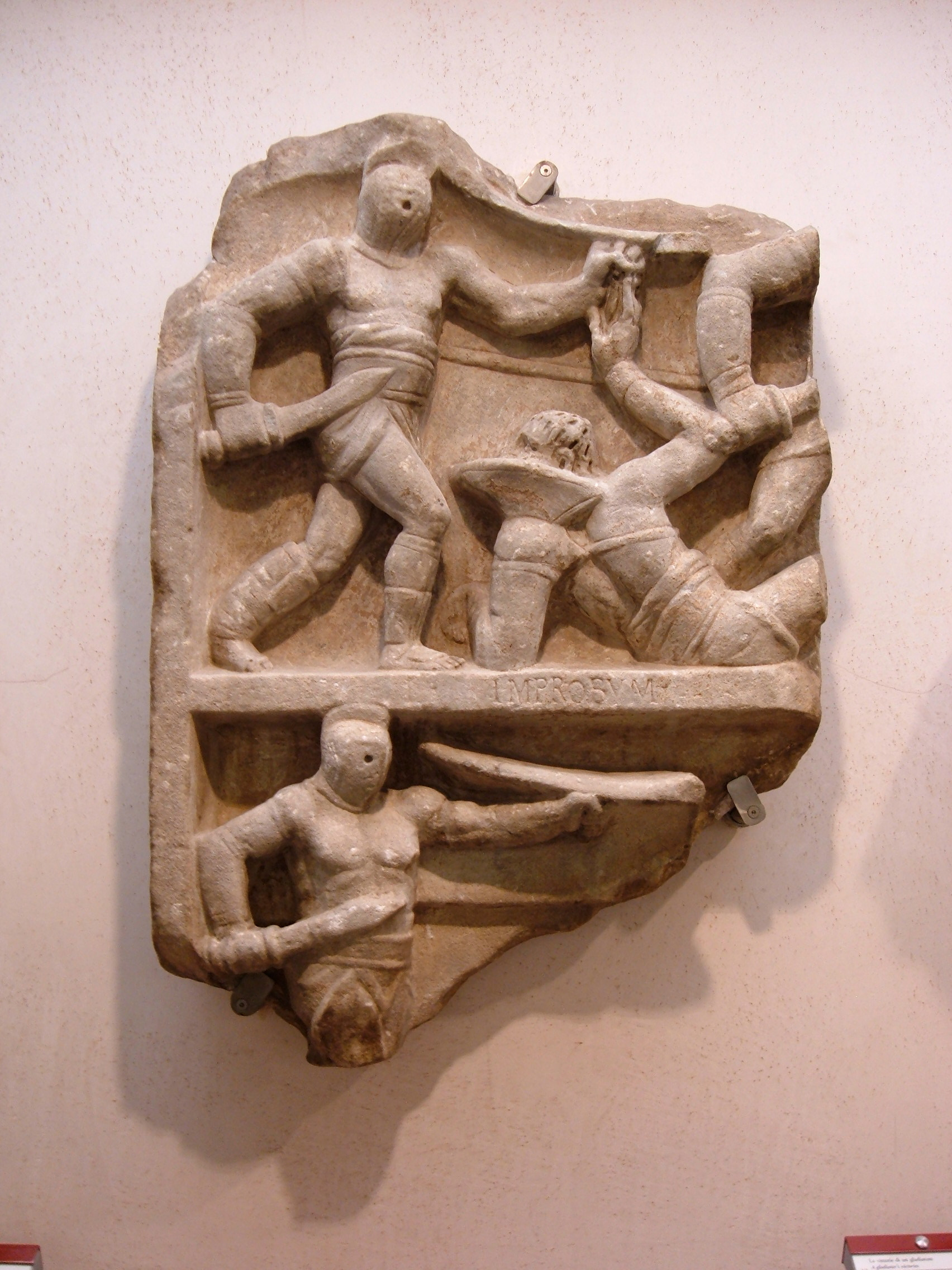 Roman Relief with gladiators. The standing Secutor fights a Retirarius lying on the ground. In the lower regisert you can see the Secutor only. Text reads: "IMPROBUM" (From Improbus: adj. dishonest, evil, mean. in this case the best translation would probably be "FOUL!")